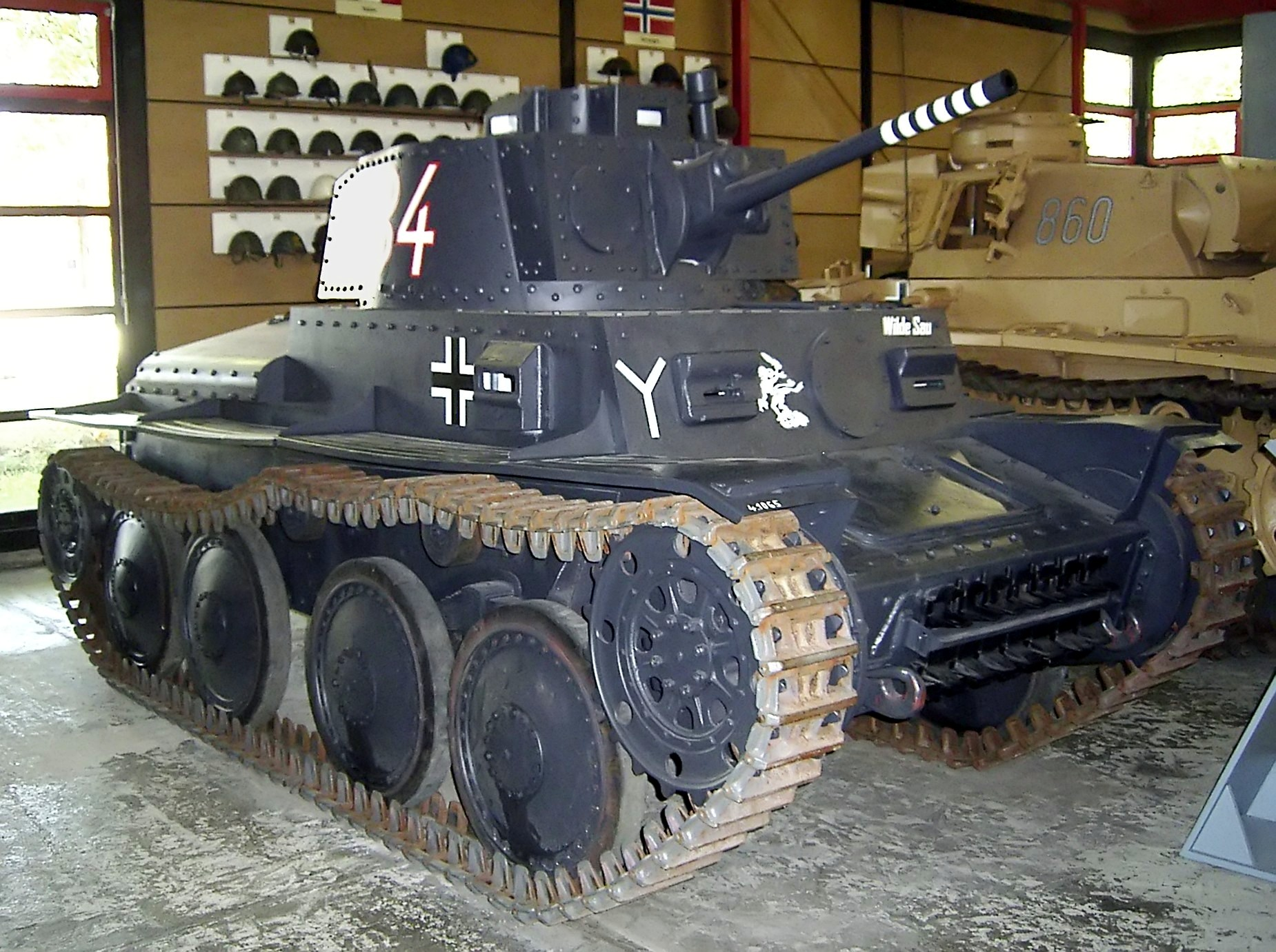 Deutscher Panzer 38(t) Ausführung S im Deutschen Panzermuseum Munster. The "Y"-like and ghost designs are emblems of 7th Panzer Division. Numbering on the side of the turret identifies the tank. Colored rings around the gun barrel indicate victories over enemy vehicles.